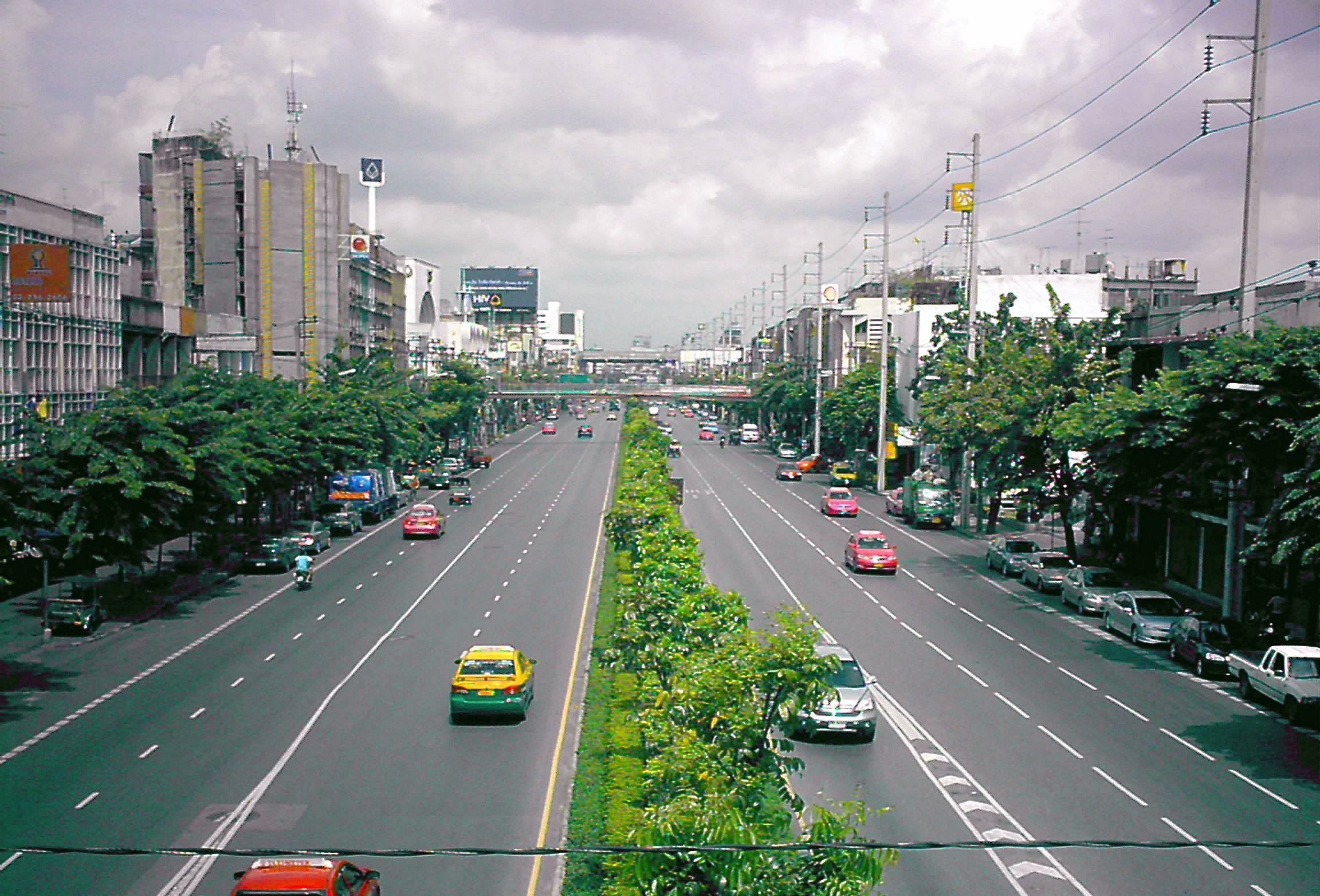 Rama 4 Road, Bangkok, Thailand 中文（香港）: 泰國，曼谷，拍喃四路。